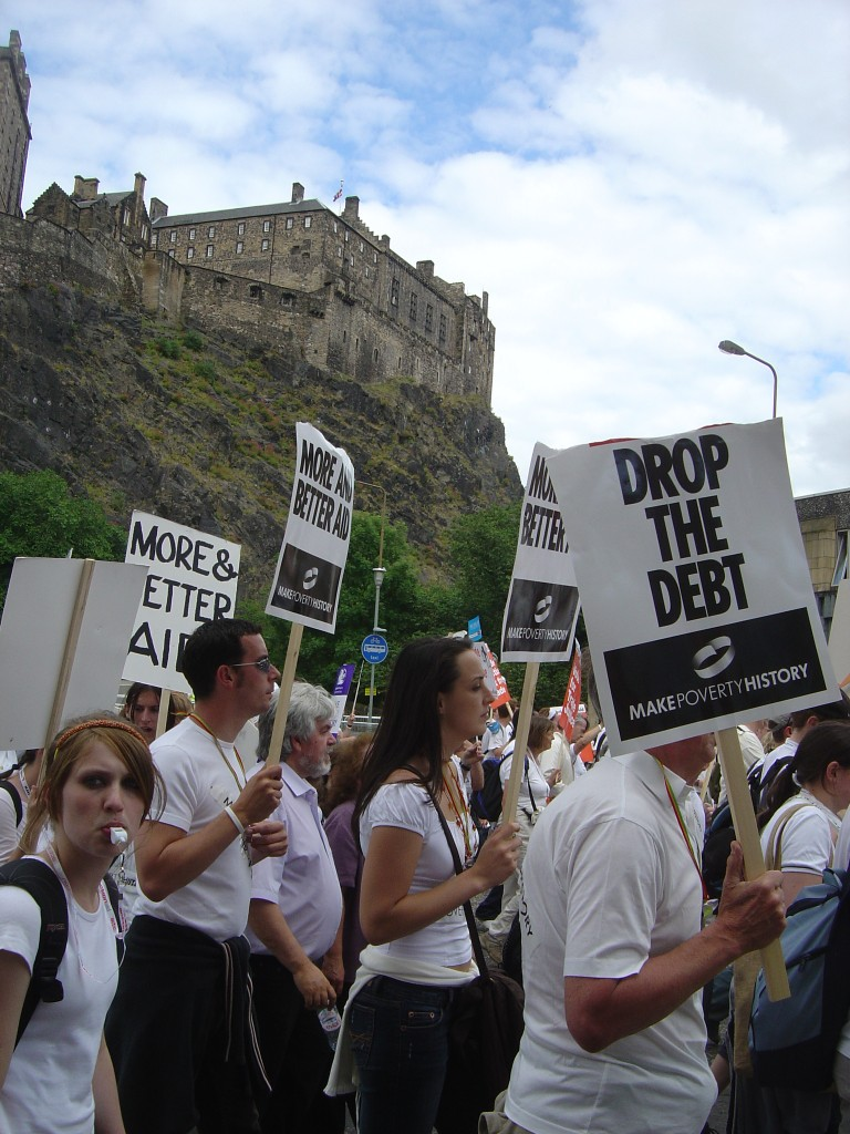 Signs warning of prohibited activities; an example of a social control